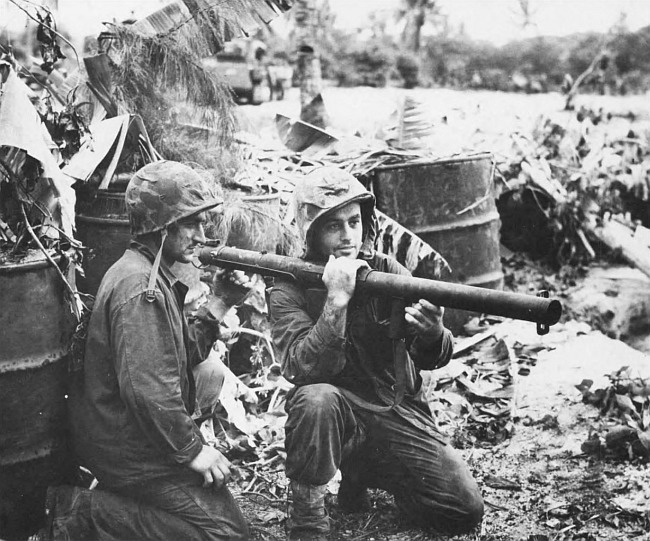 Original Caption: Displaying the bazooka which knocked out four Japanese light tanks are bazooka men PFC Lauren N. Kahn, left, and PFC Lewis M. Nalder. The two Marines fired all their ammunition at Japanese tanks advancing in a counterattack on the night of D+1. Kahn then grabbed some grenades, approached one tank from the side, and tossed the grenade into its open turret. Their action saved a 37mm gun crew, the objective of the tank. The gun crew, with its men wounded, was also out of ammunition. Department of Defense Photo (USMC) 85167 The bazooka is M1A1